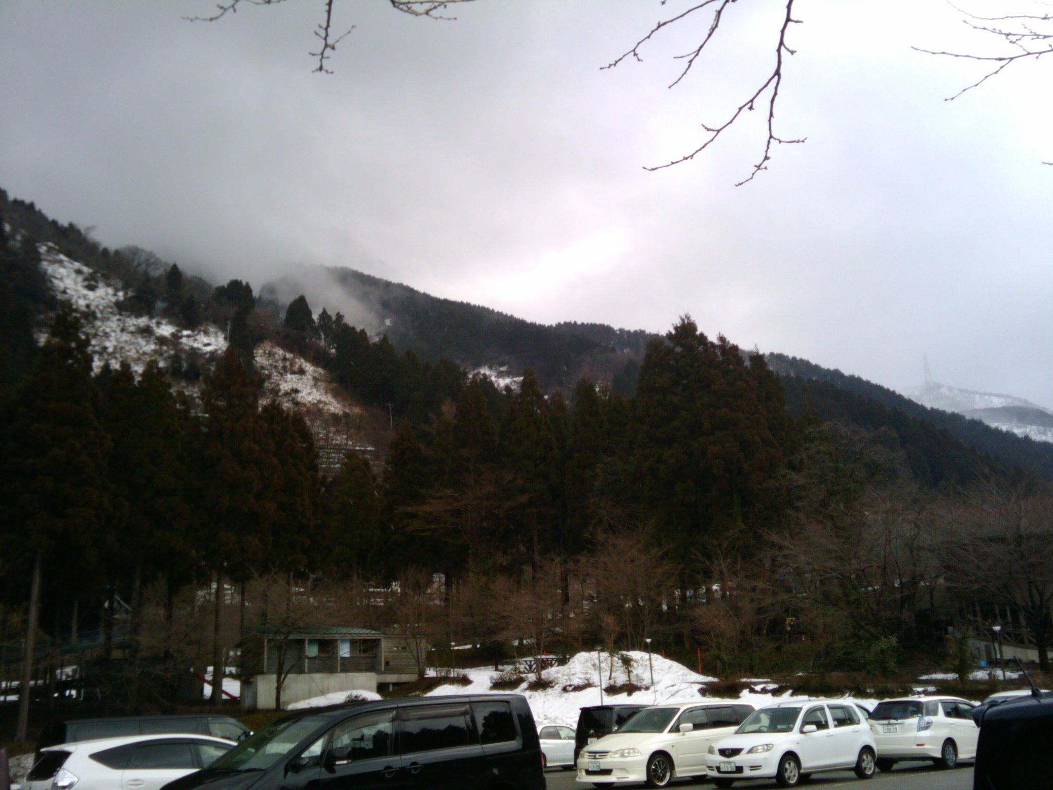 Shishiku Plateau (Hakusan, Ishikawa, Japan)